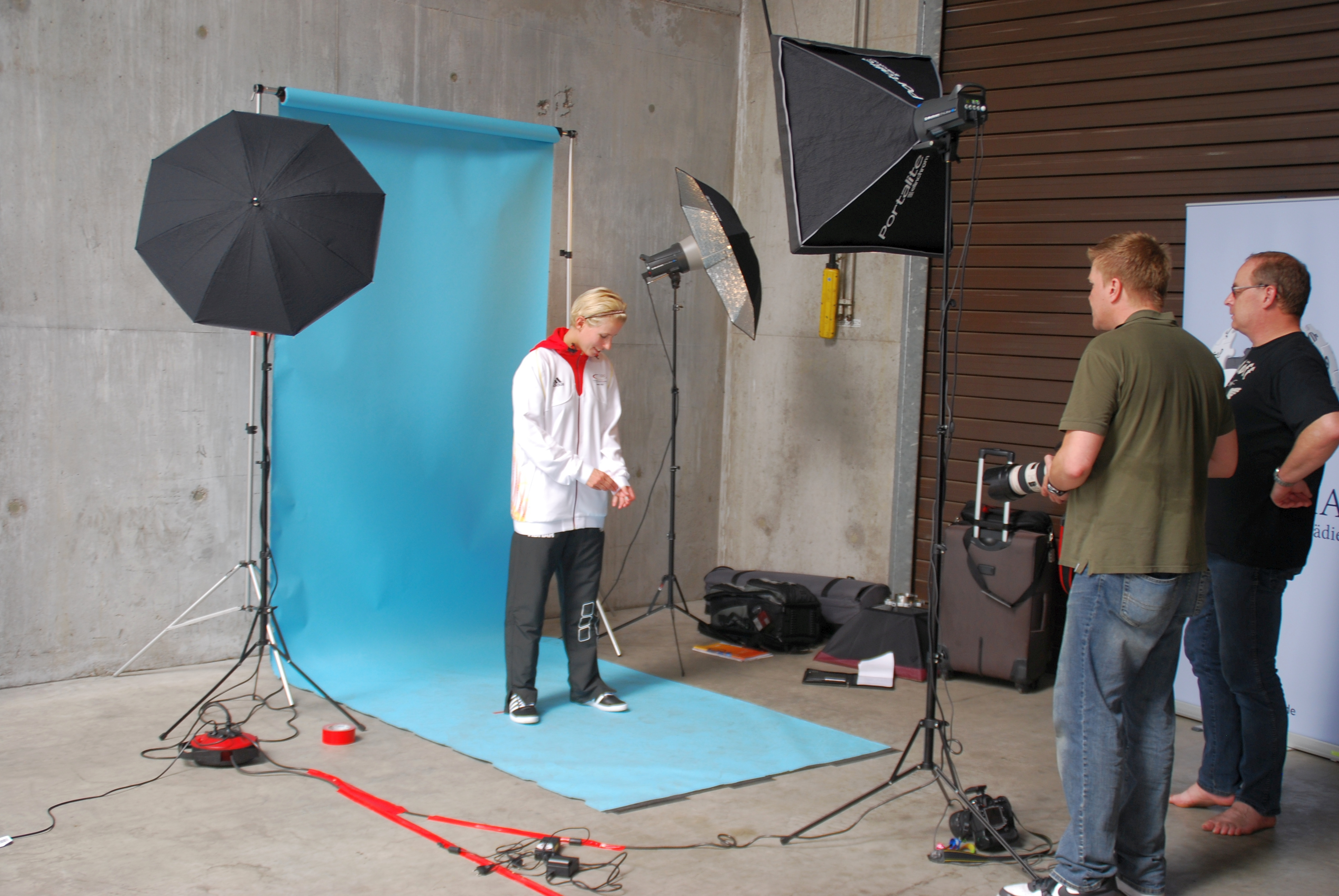 Outfitting the Olympic team of Germany 2012